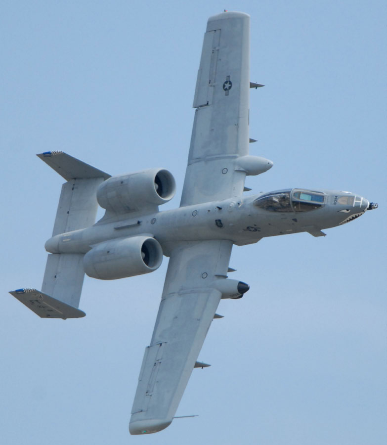 A-10 Thunderbolt II in flight over McGuire Air Force Base.